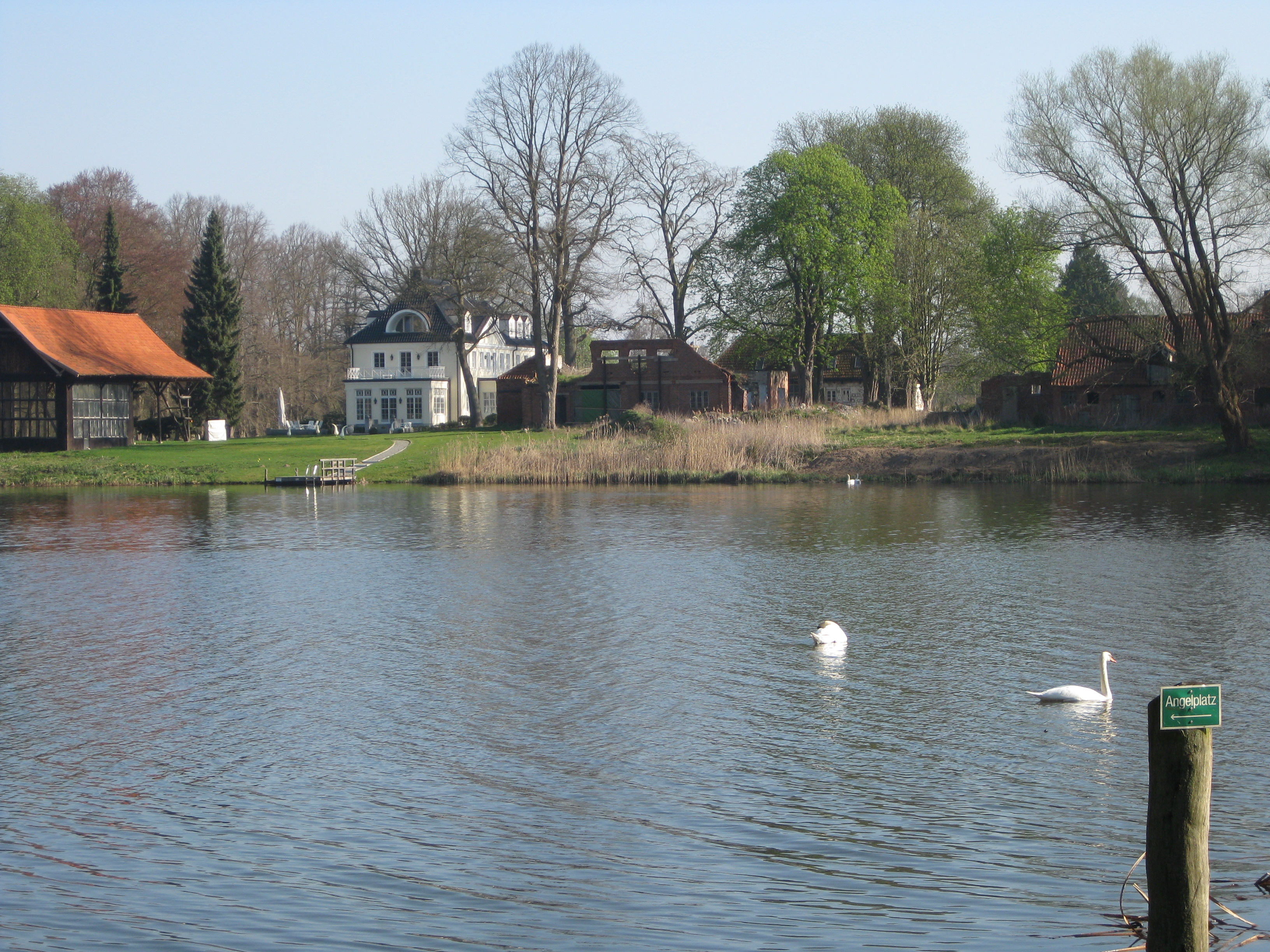 Manor style neoclassical main house of the Kaninchenberg estate, a former farm and mill in Lübeck. Seen in morning sun from railroad bridge overlooking river Wakenitz.